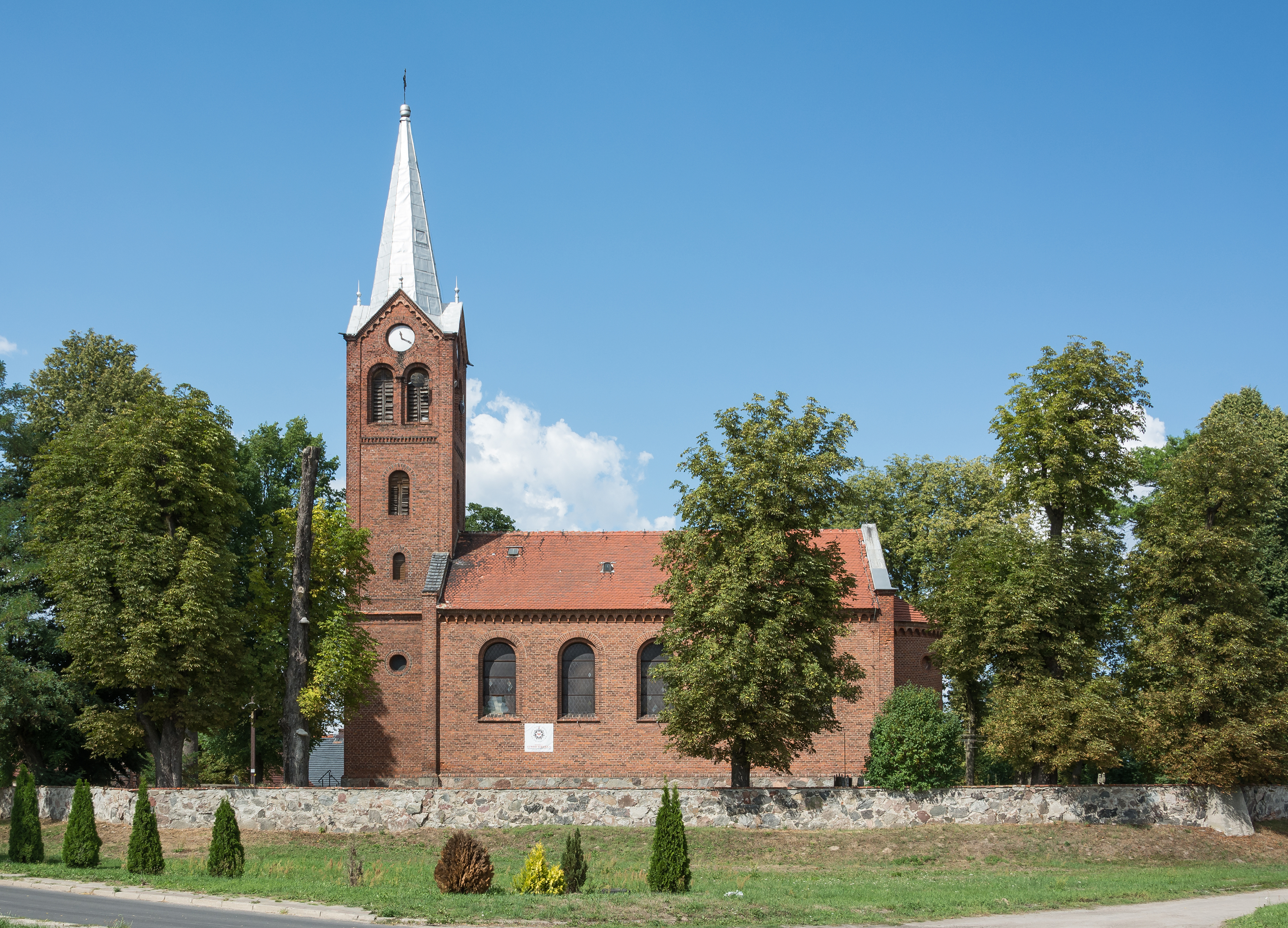 Church of the Assumption in Sokola Dąbrowa Wikidata has entry Q30105632 with data related to this item.